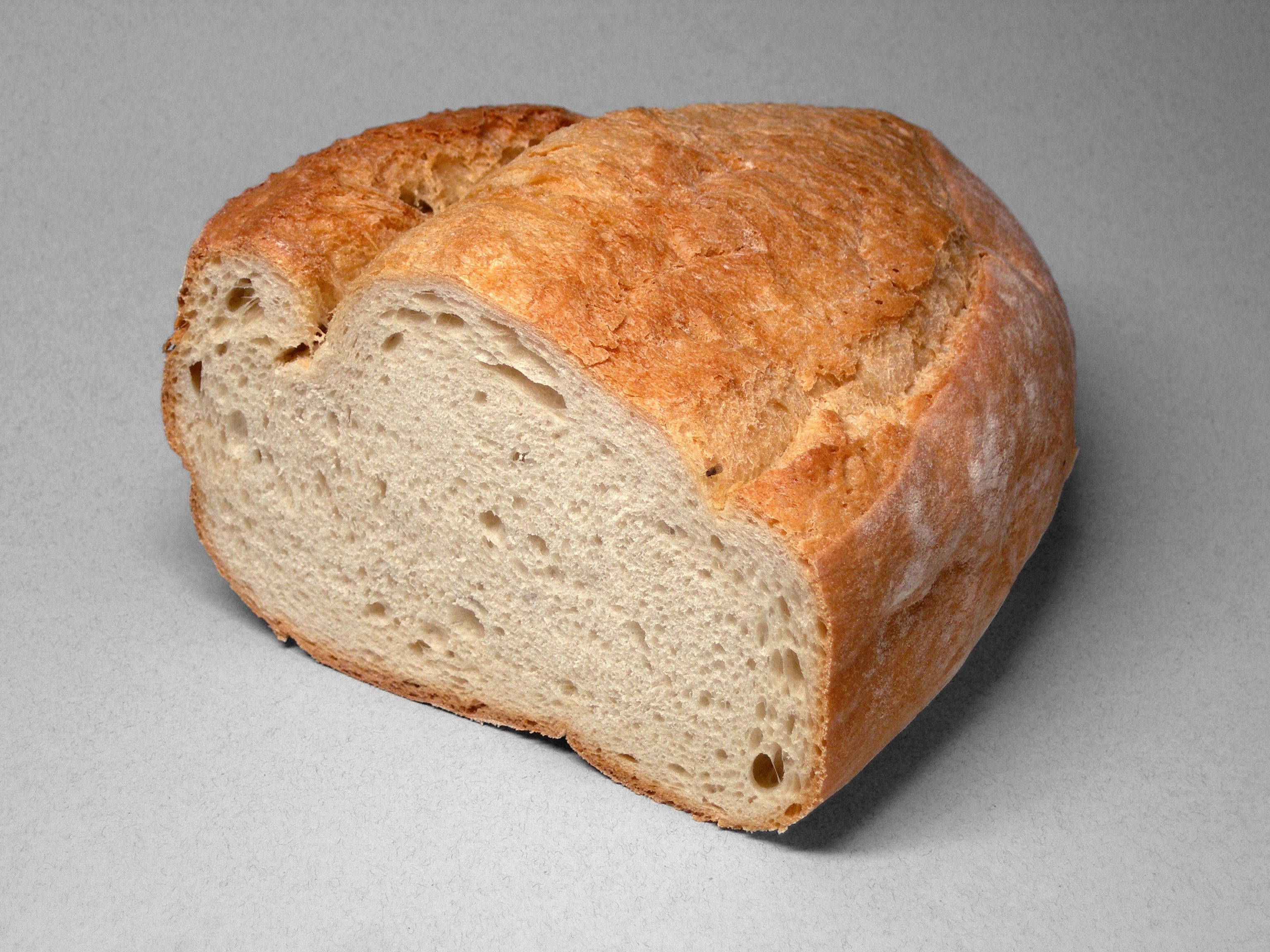 French white bread, cut off at the front.